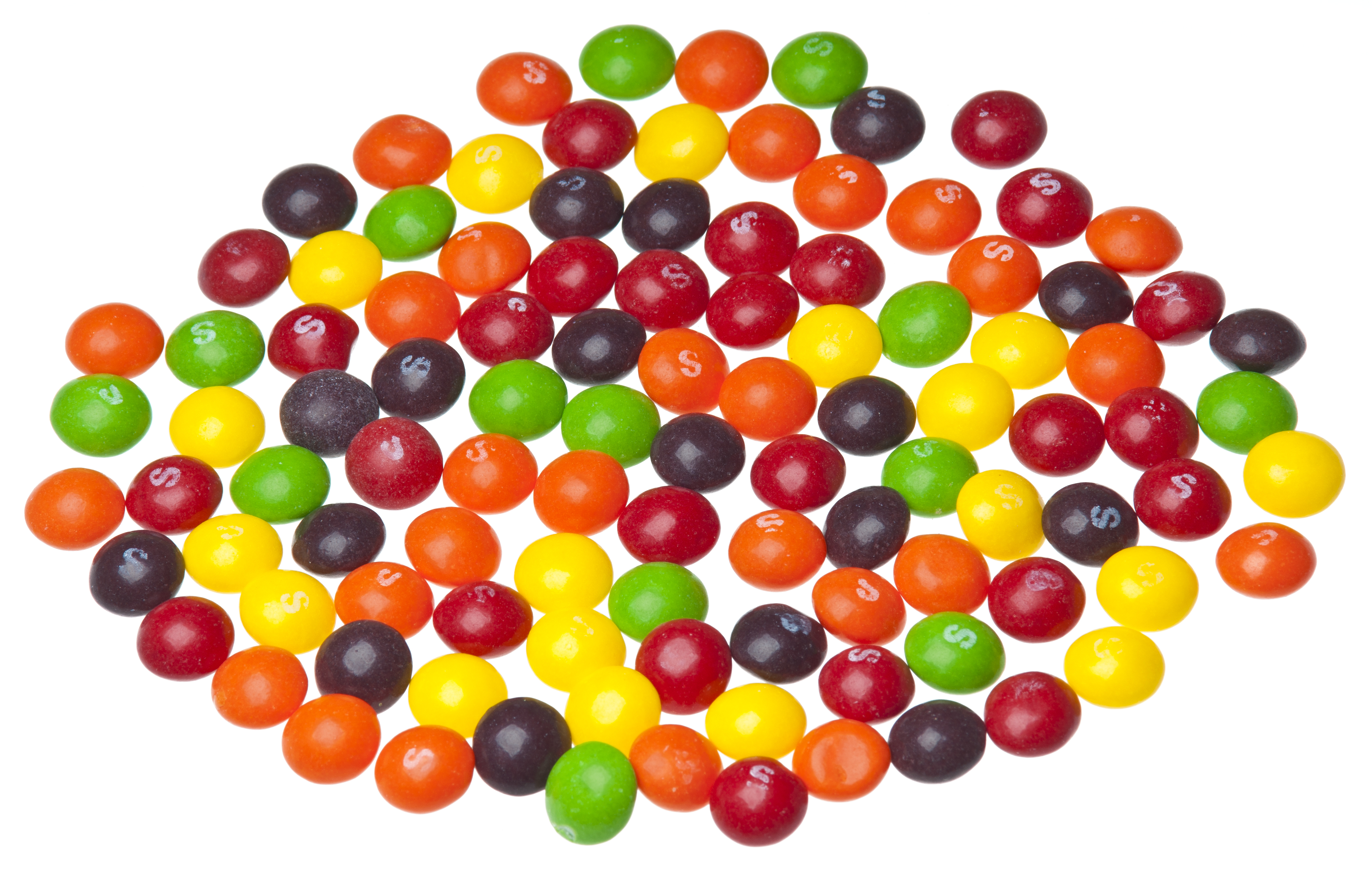 An array of Skittles candies.